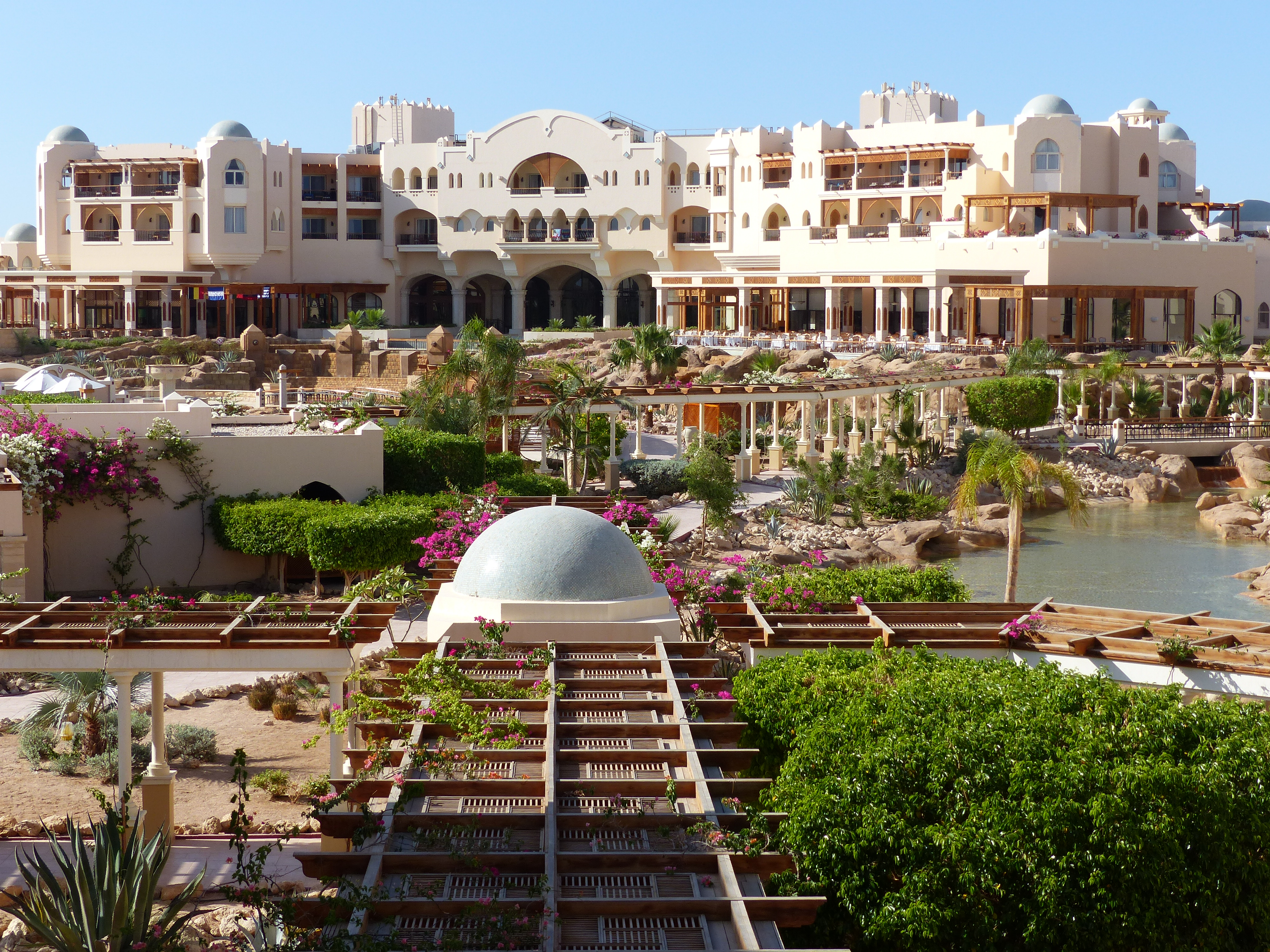 Kempinski Soma Bay